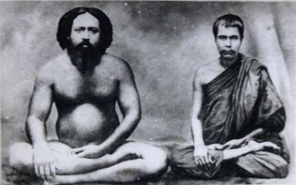 The photograph shows a photo of Soham Swami, a famous Bengali yogi and Guru and Hindu religious figure of India.The photograph shows Soham Swami with Tibbetibaba, his guru.